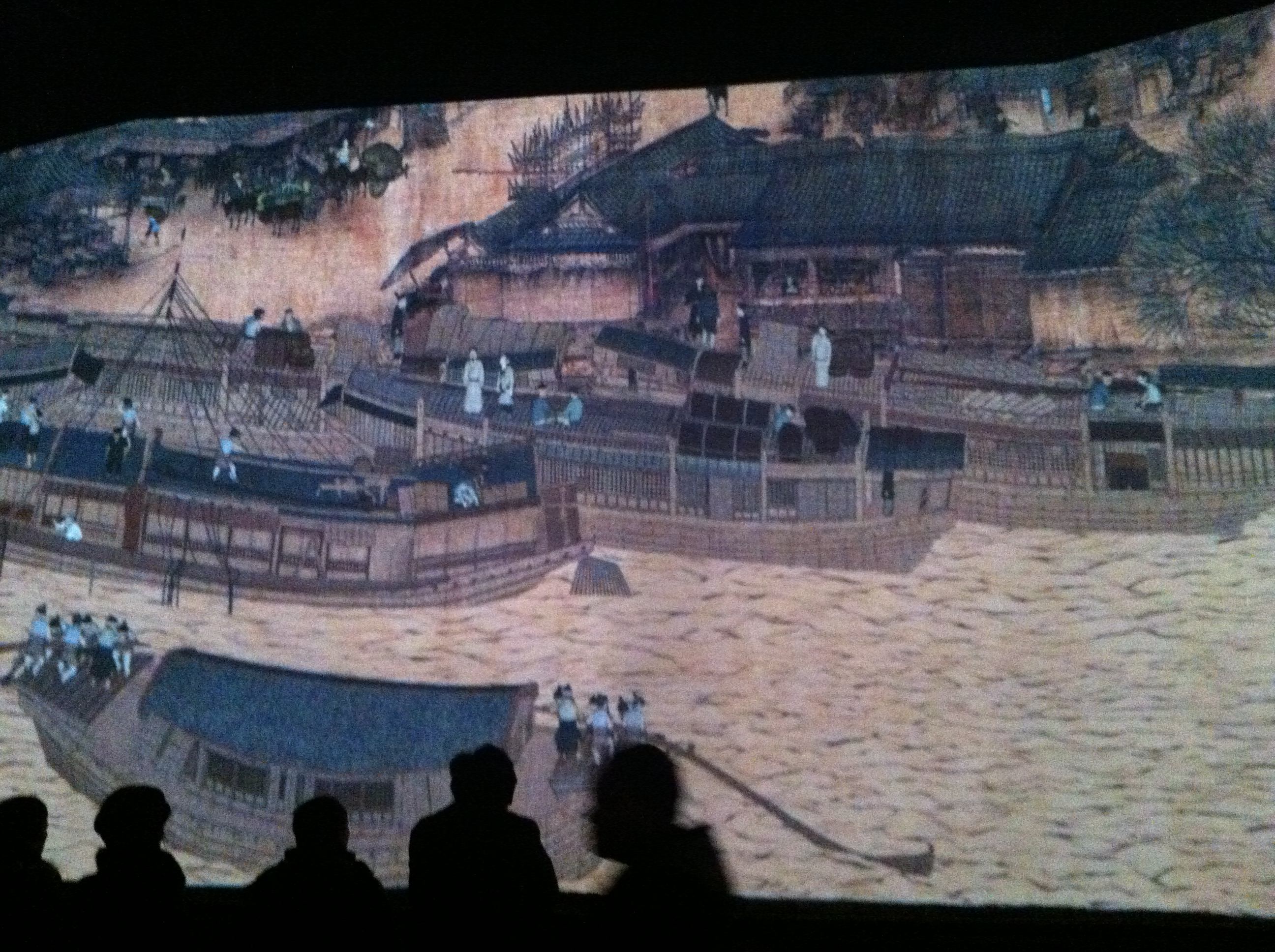 The animation based on the historic Chinese painting Along the River During the Qingming Festival in China Art Museum, taken on December 21, 2014.